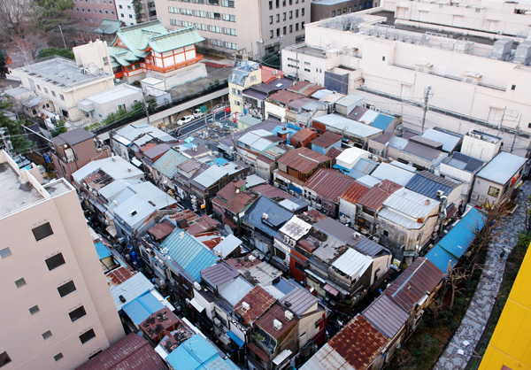 Shinjuku Golden Gai in Shinjuku-ku, Tokyo pref., Japan.